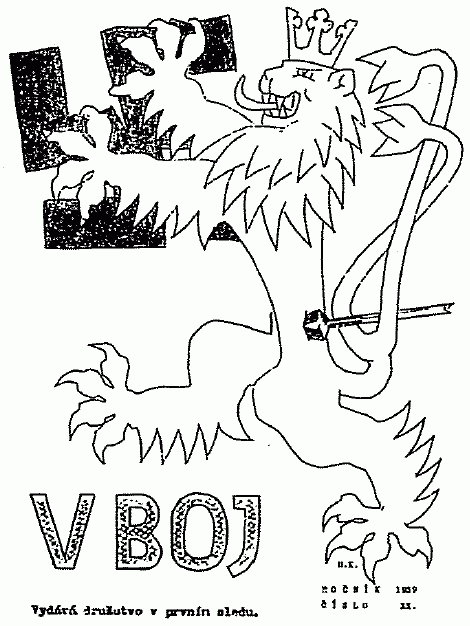 Title page of magazine named "In the fight". Magazine was printed and distributed during protectorate through resistance group "Contingent in the first frontline". Year 1939, author: Czech graphic artist, typographer, painter and illustrator Vojtěch Preissig (* 1873 - † 1944)